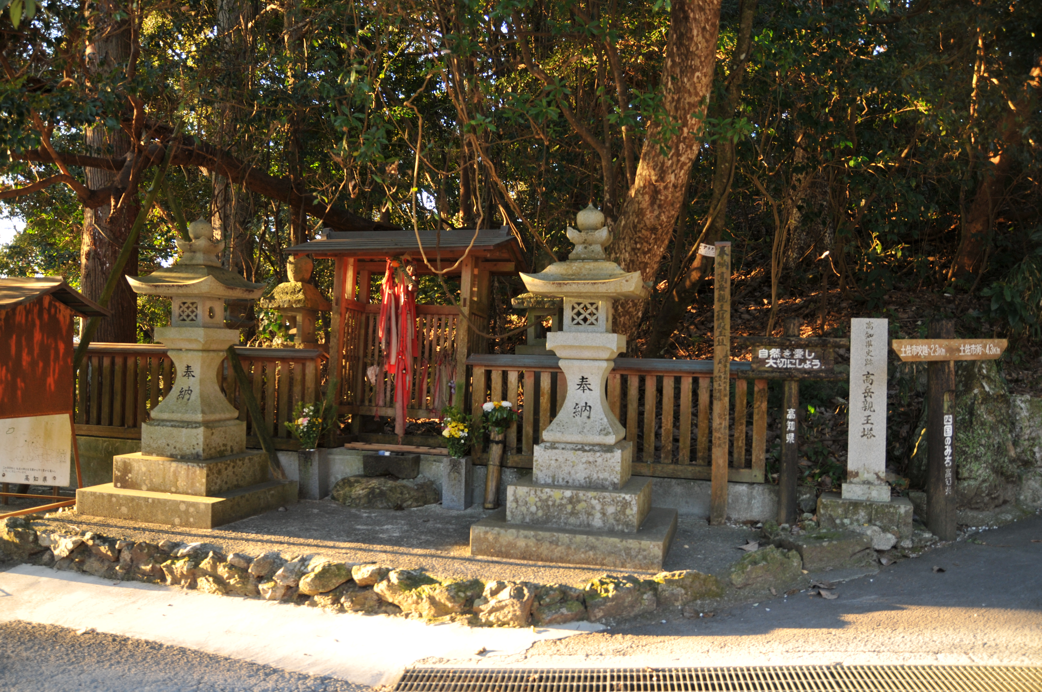 Takaoka-shinno memorial pagoda, Kiyotaki-ji